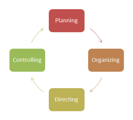 Management Process